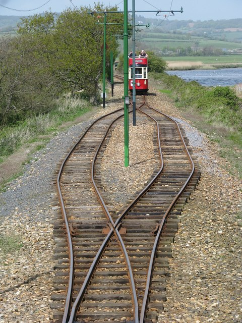 Passing loop on the Seaton tramway